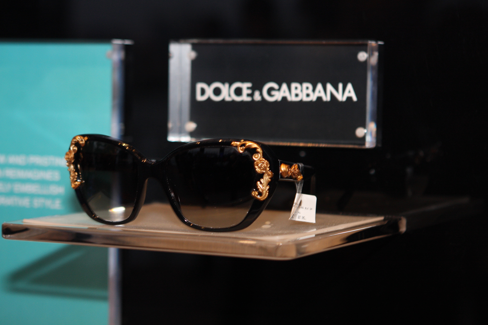 Georgia May Jagger in Sydney, Australia; Sunglass Hut floats on Sydney Harbour with celebrities and product pitch